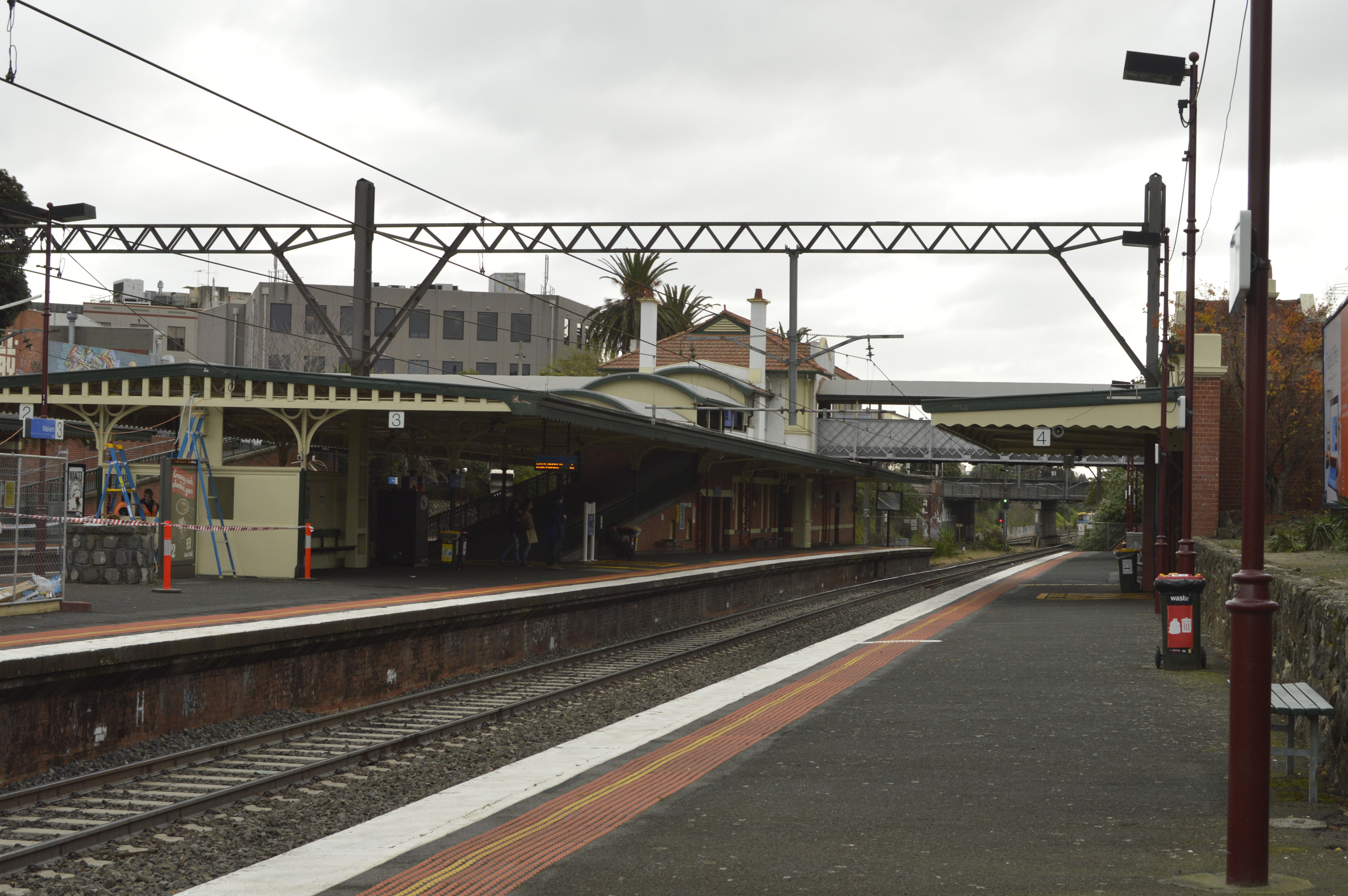 Up view from platform 4